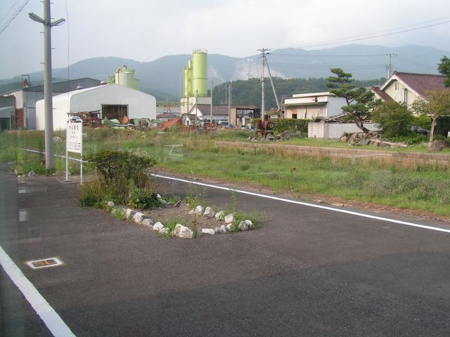 Kanmata Station, Tamura, Fukushima, Japan